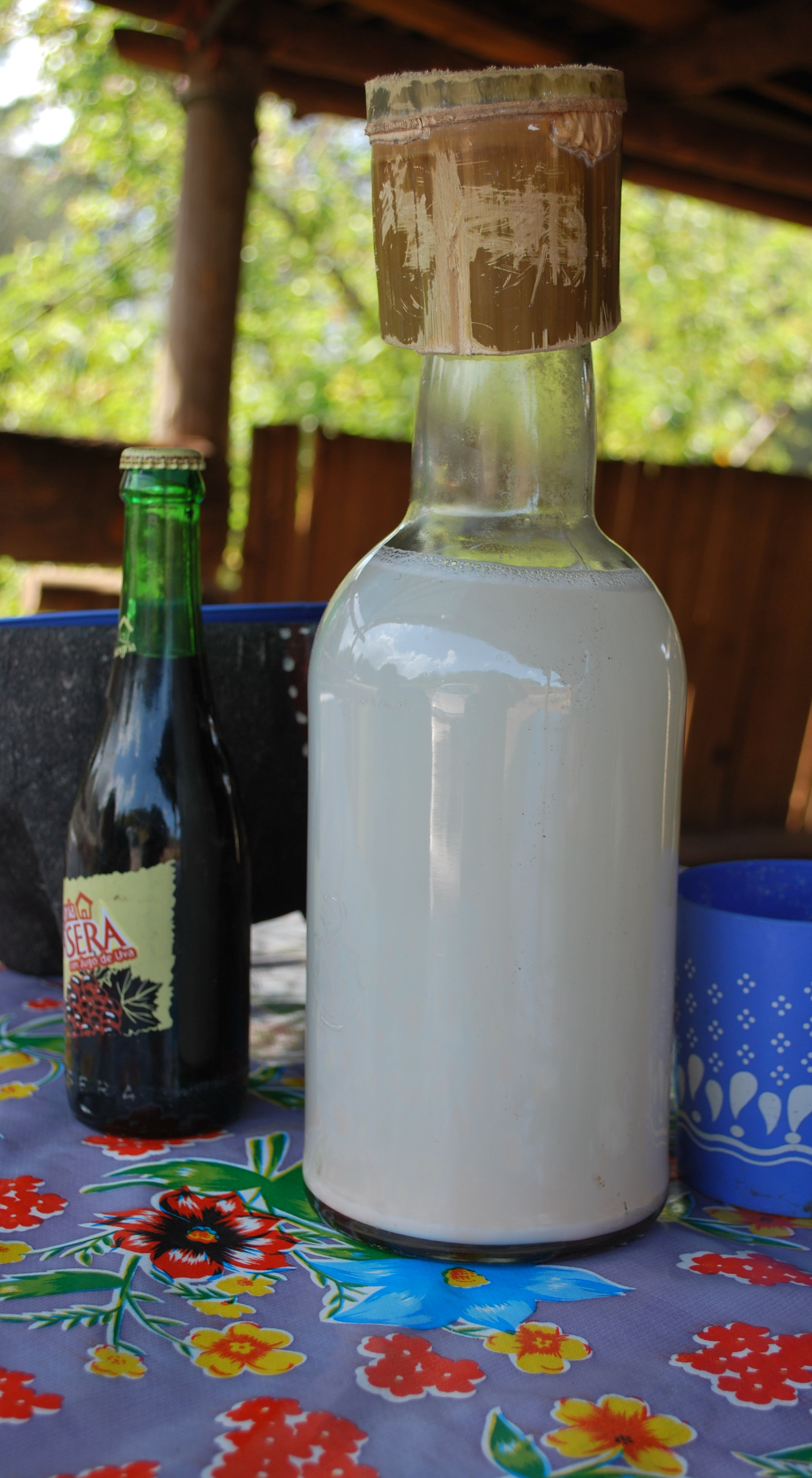 Bottle filled with unflavored pulque at a roadside stand in Zacatlán, Puebla, Mexico